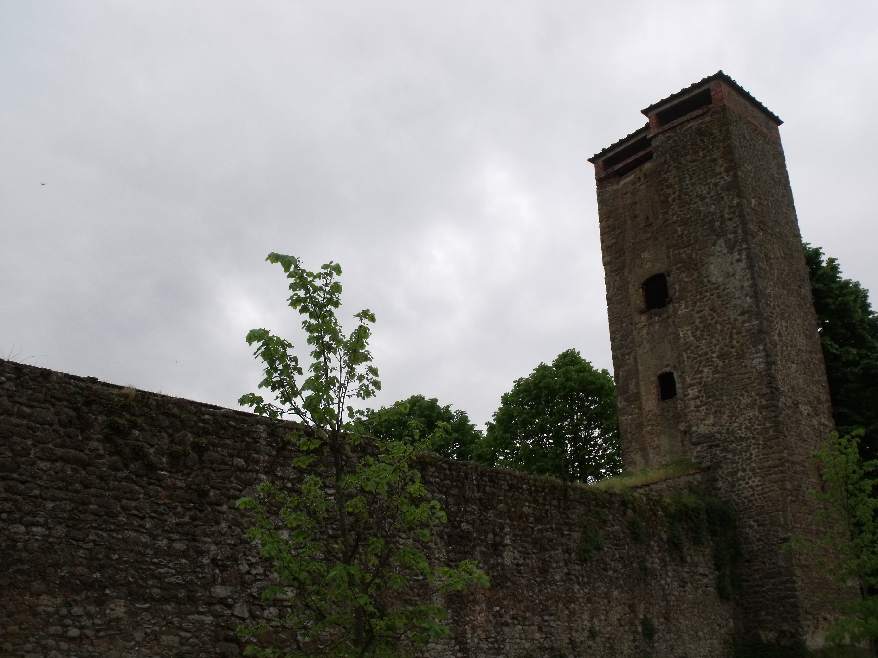 City Walls of Terranuova Bracciolini, Valdarno, Province of Arezzo, Tuscany, Italy